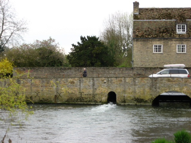 Bridge by the Mill Looking south towards the roadbridge into Grantchester.